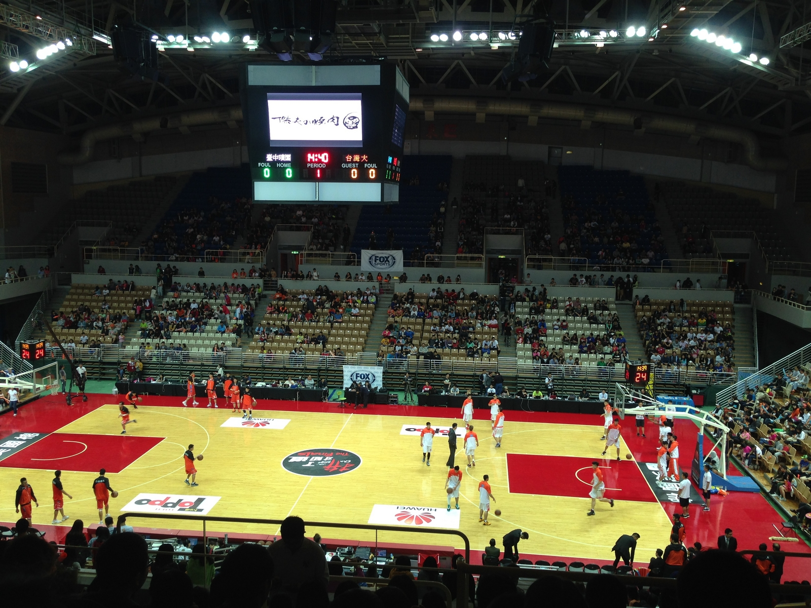 SBL in Xinzhunag Gymnasium 中文（台灣）: 新莊體育館，SBL超級籃球聯賽